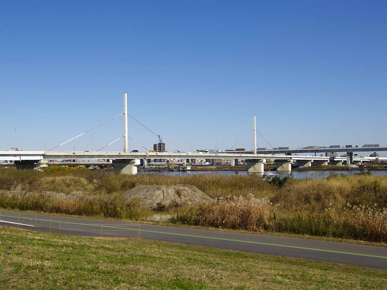 Arakawa ohashi bridge, for Komatsugawa Line of Shuto Expressway (Shutoko).